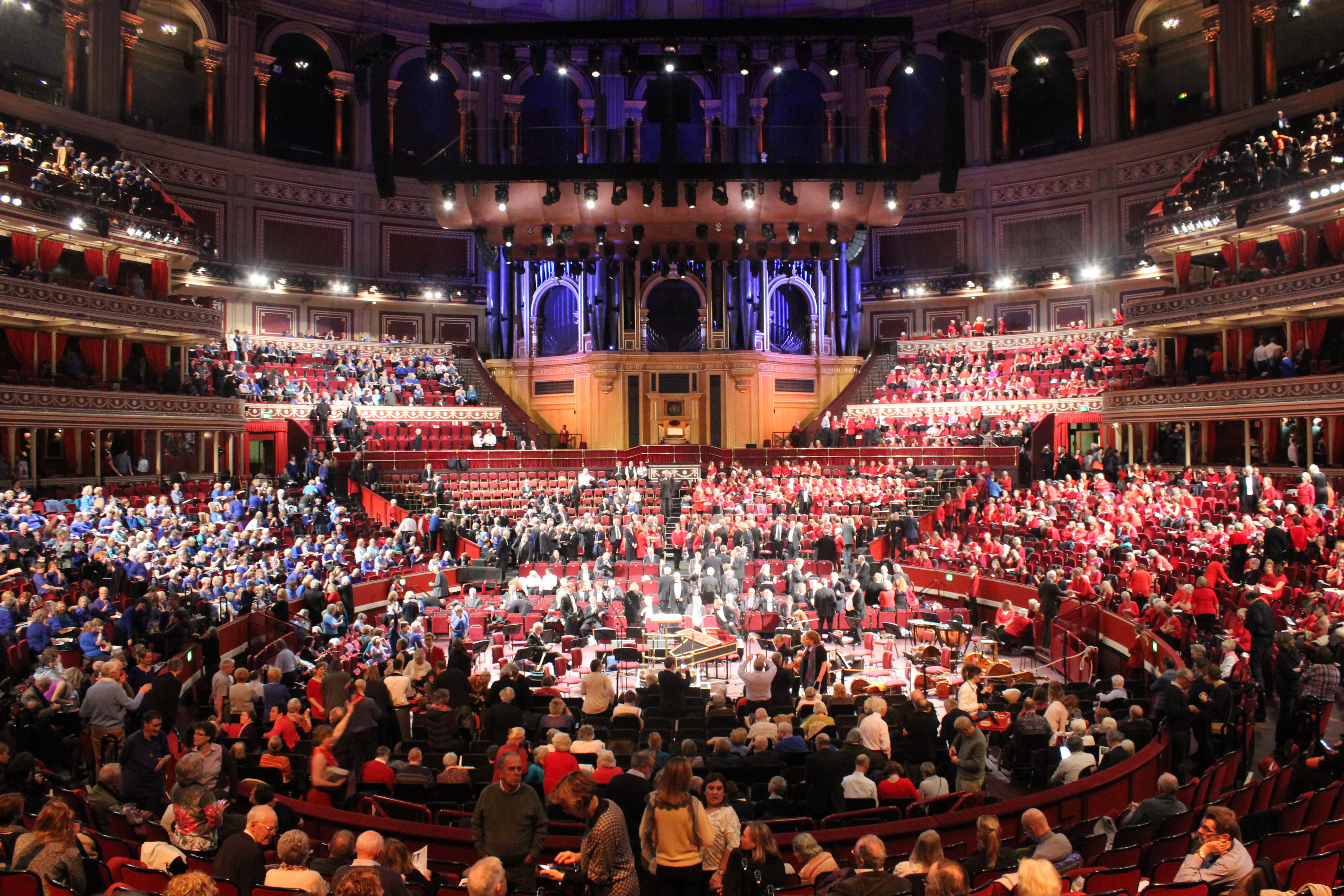 Interior view of the Royal Albert Hall taken through the "K" door of the stalls during the interval of the "Messiah from Scratch 2015" concert.